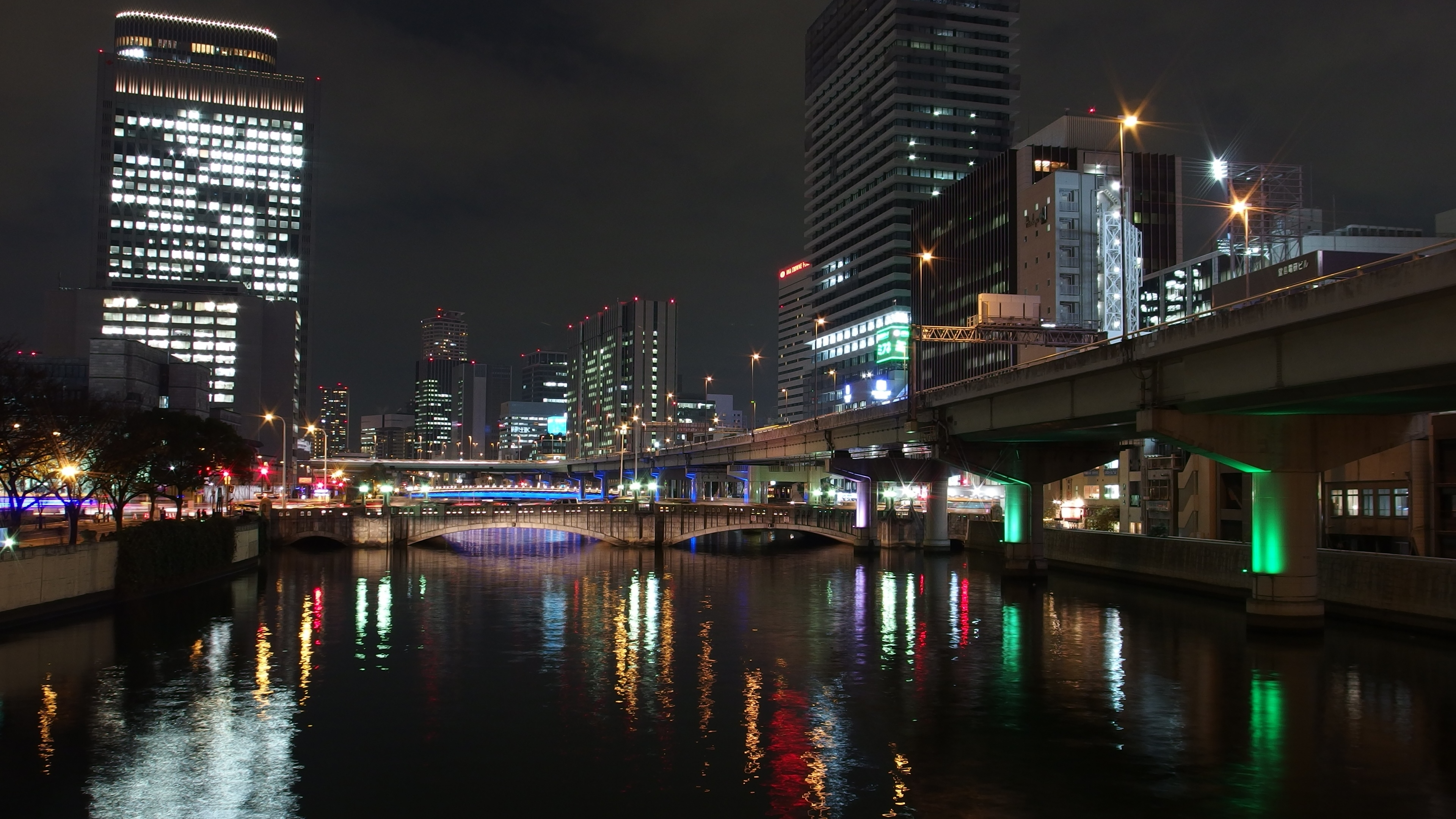 Hanshin Expressway Route 1 in Osaka, Osaka Prefecture, Japan